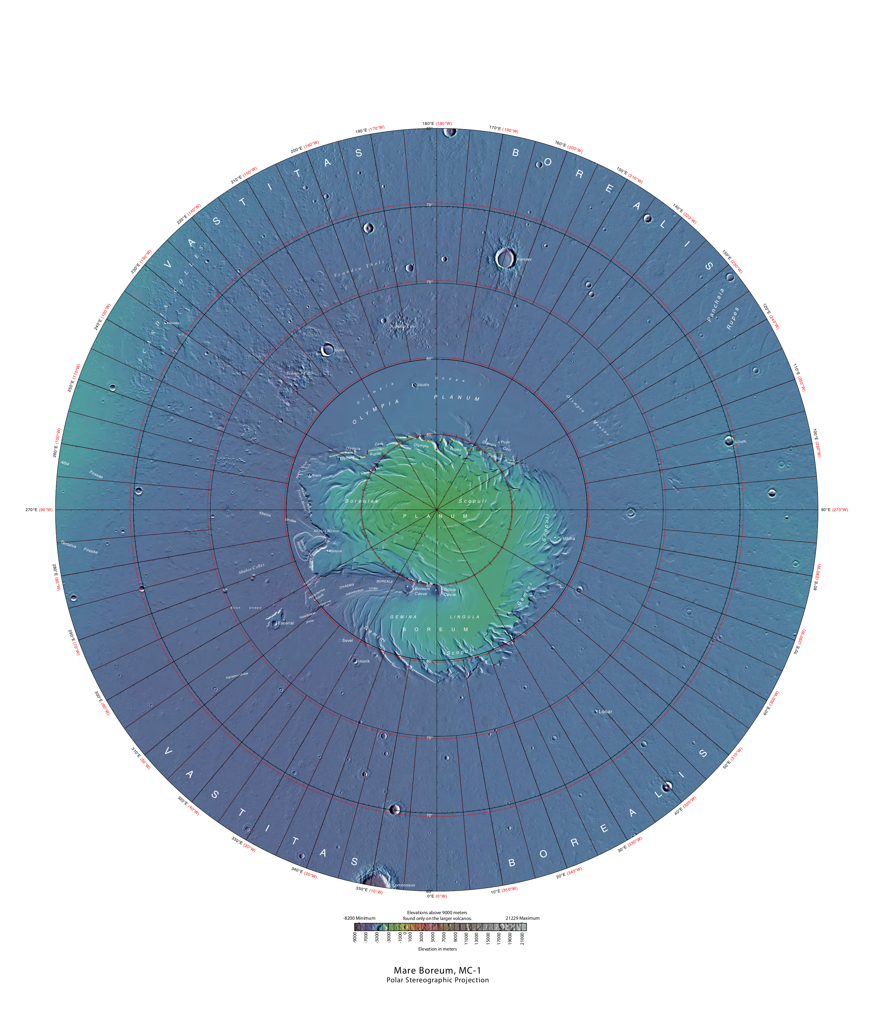 MOLA Topographic Map of Mare Boreum Quadrangle (MC-1) on the planet Mars. NOTE: Converted the original PDF file to a PNG File (via GIMP v2.8.4 program) - and uploaded to Wikimedia Commons.